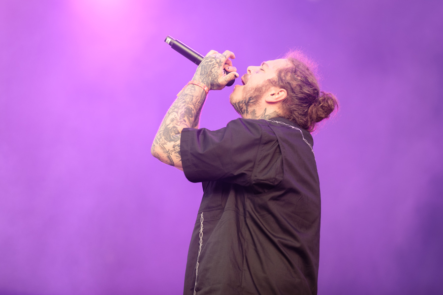 Post Malone at the main stage at Stavernfestivalen. The concert took place on 14. July 2018 in Stavern. Lineup:Post Malone (rap)